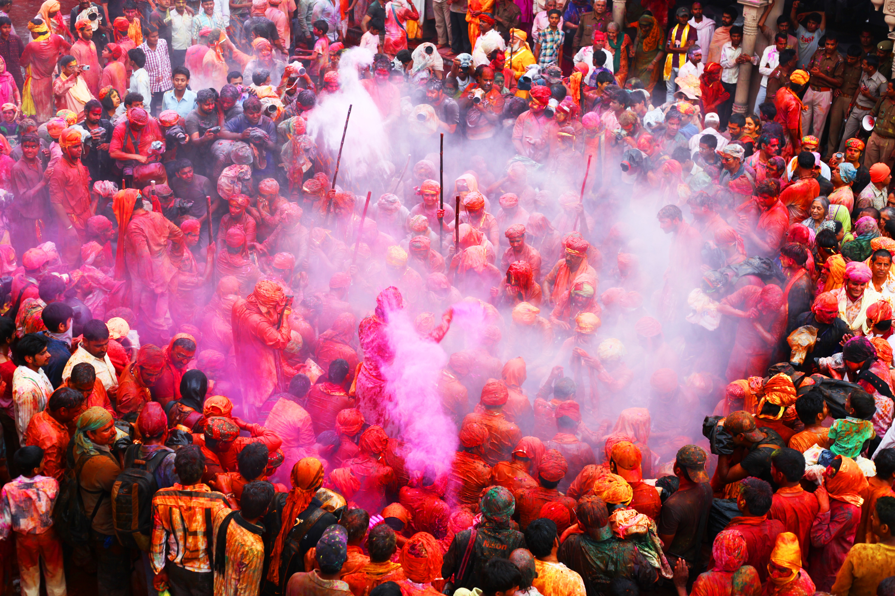 A scene of devotees inside Krishan temple Nandgaon